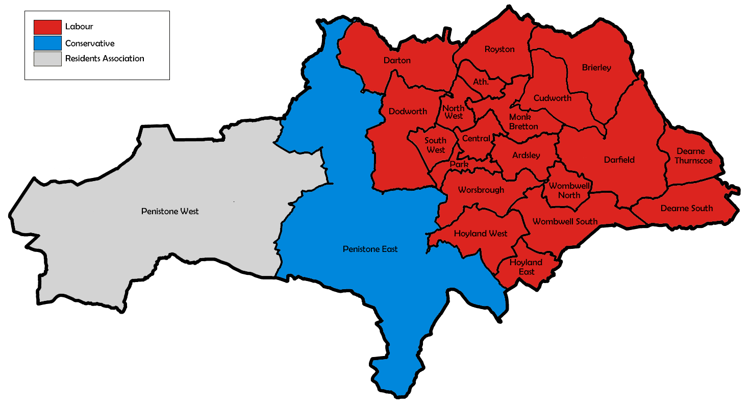 Ward map of Barnsley council with political colouring for the 1980 election.